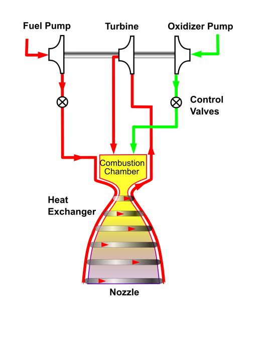 Expander rocket cycle